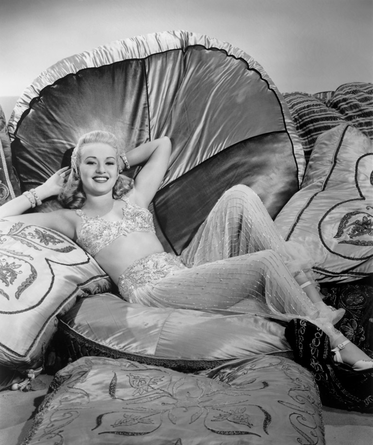 Elizabeth Ruth "Betty" Grable from the film Tin Pan Alley.